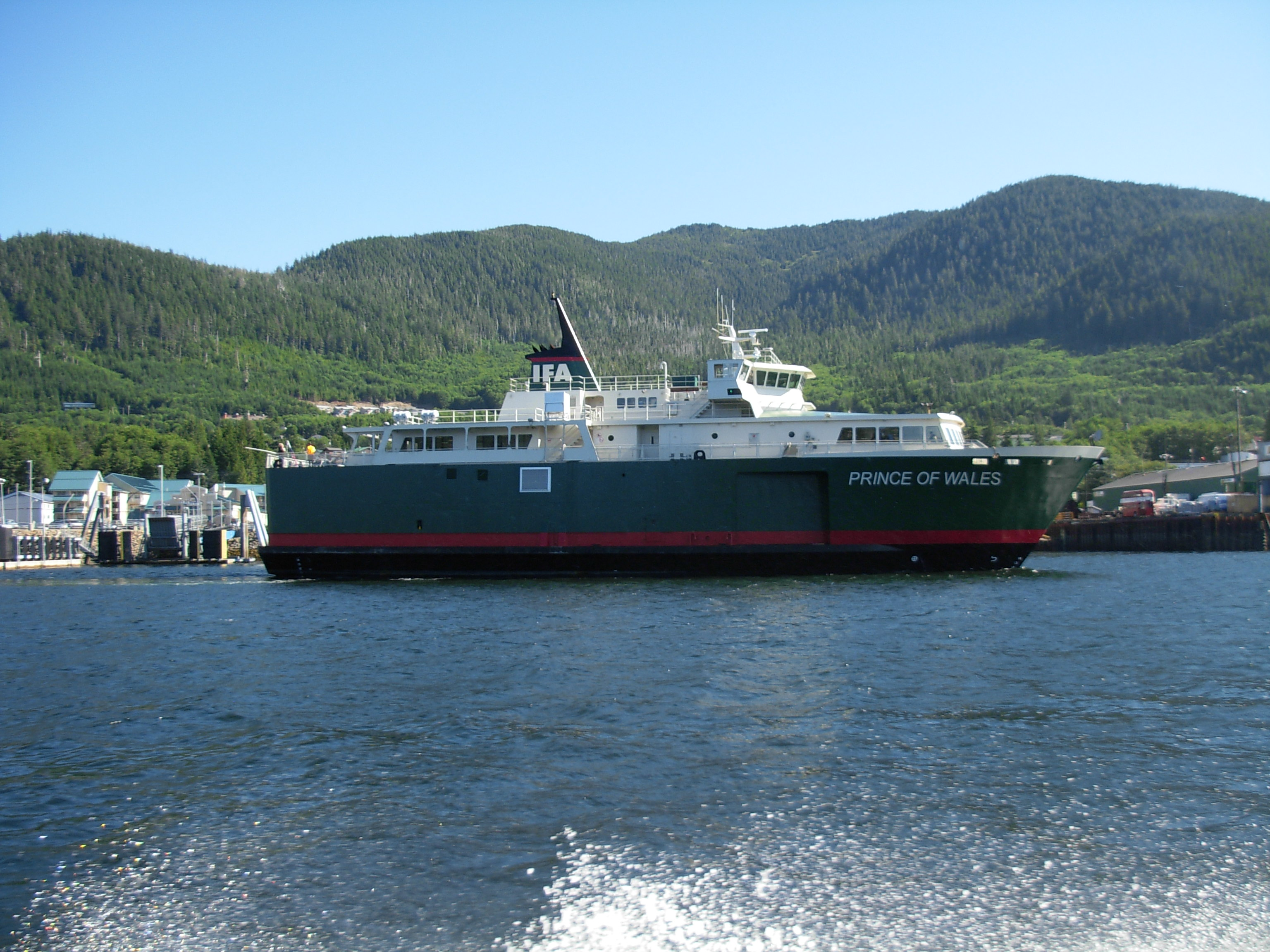 Inter-Island Ferry Authority, runs to Hollis on Prince of Wales Island